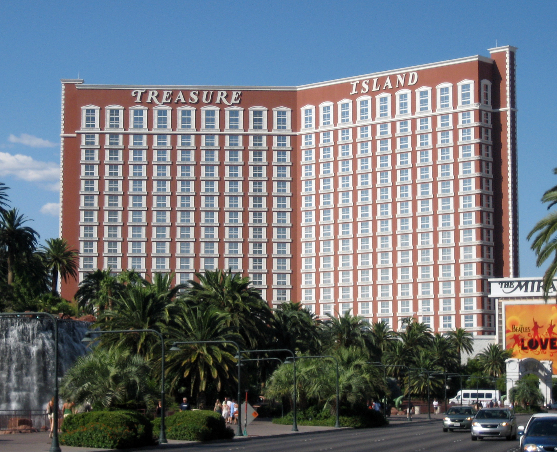 Treasure Island Hotel & Casino, Las Vegas, Nevada Author: Mark Briggs Location: Las Vegas Sept 11, 2006 Source: Personal photograph taken by Author Camera: Canon IXUS 50